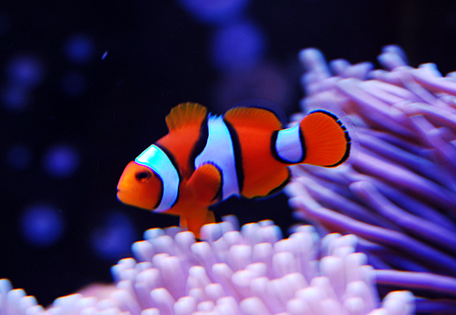 Amphiprion percula, commonly known as the Percula clownfish. Most images here labeled as A. percula are actually A. ocellaris, a similar species of clownfish. This is a true specimen of A. percula. Note the bright orange coloration, thicker black bands, and orange eyes that distinguish this species.